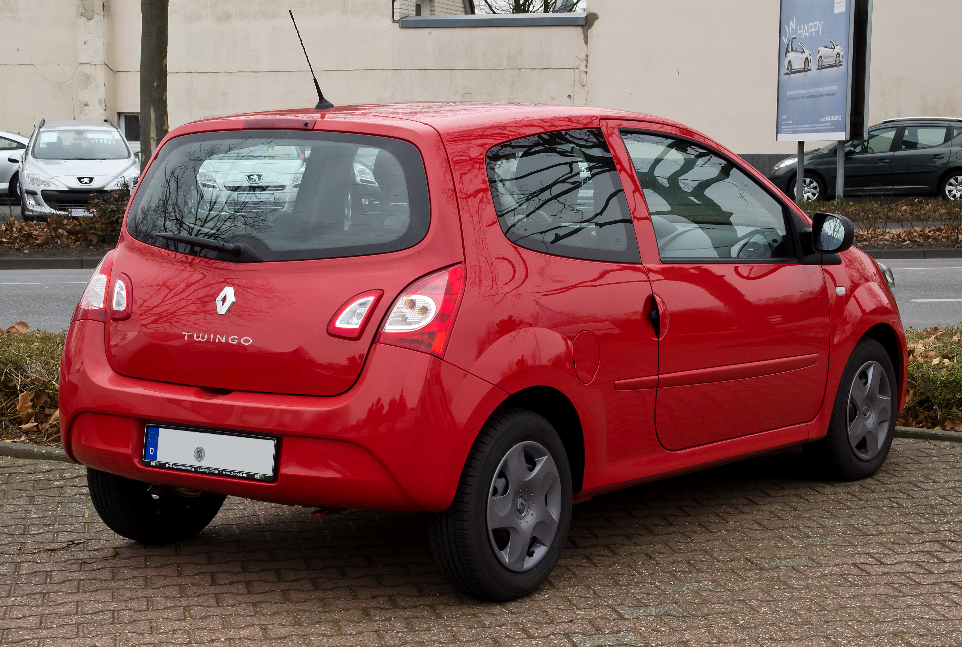 Renault Twingo (II, Facelift)